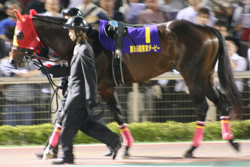 Naiki High Grade (horse)